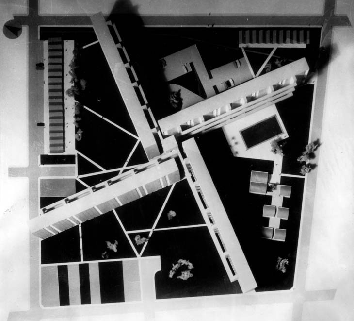 Martín Domínguez Esteban_Pontón-Maqueta-3-Planta